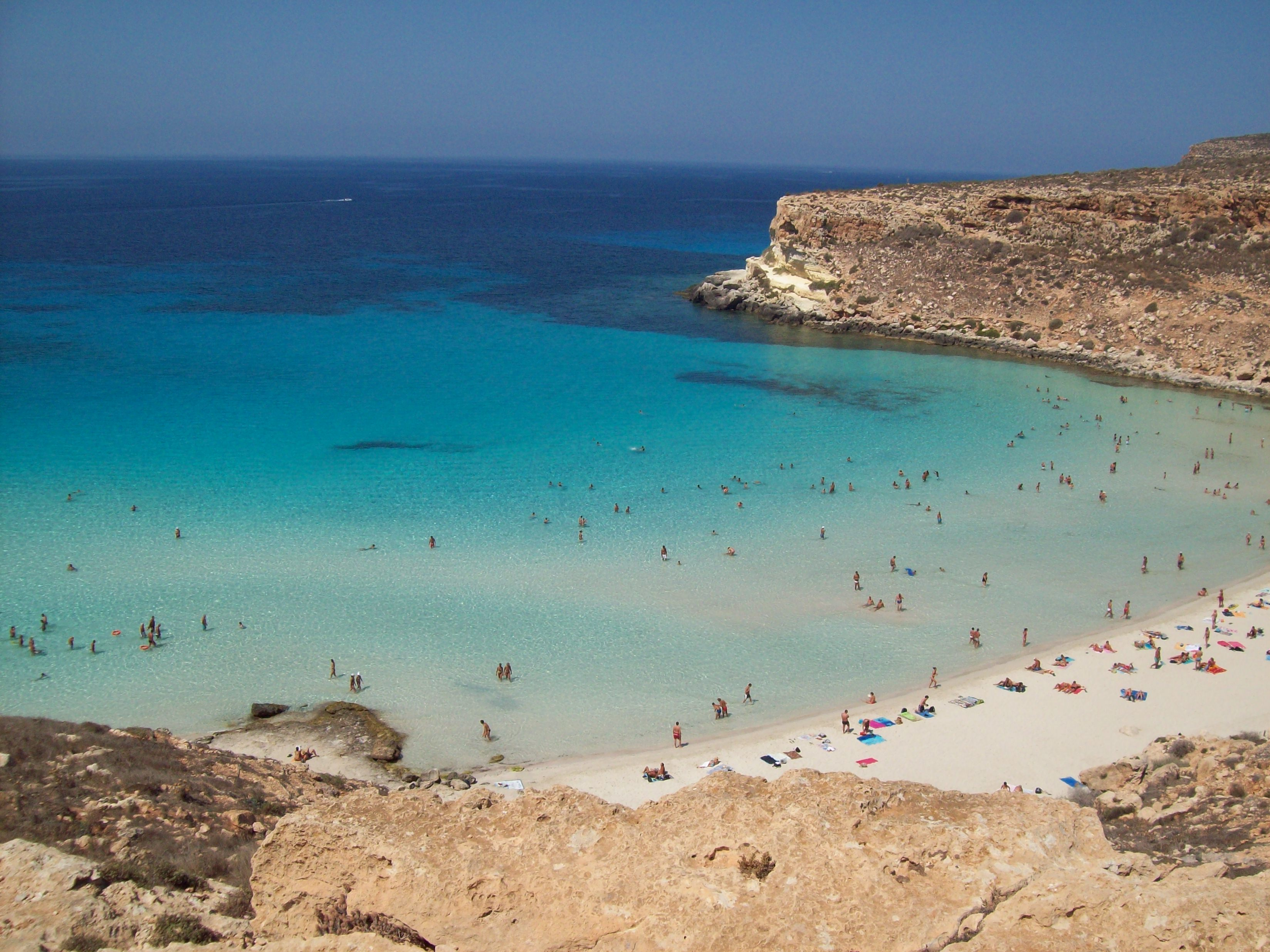 Beach on Rabbit Island in Lampedusa (Italy)